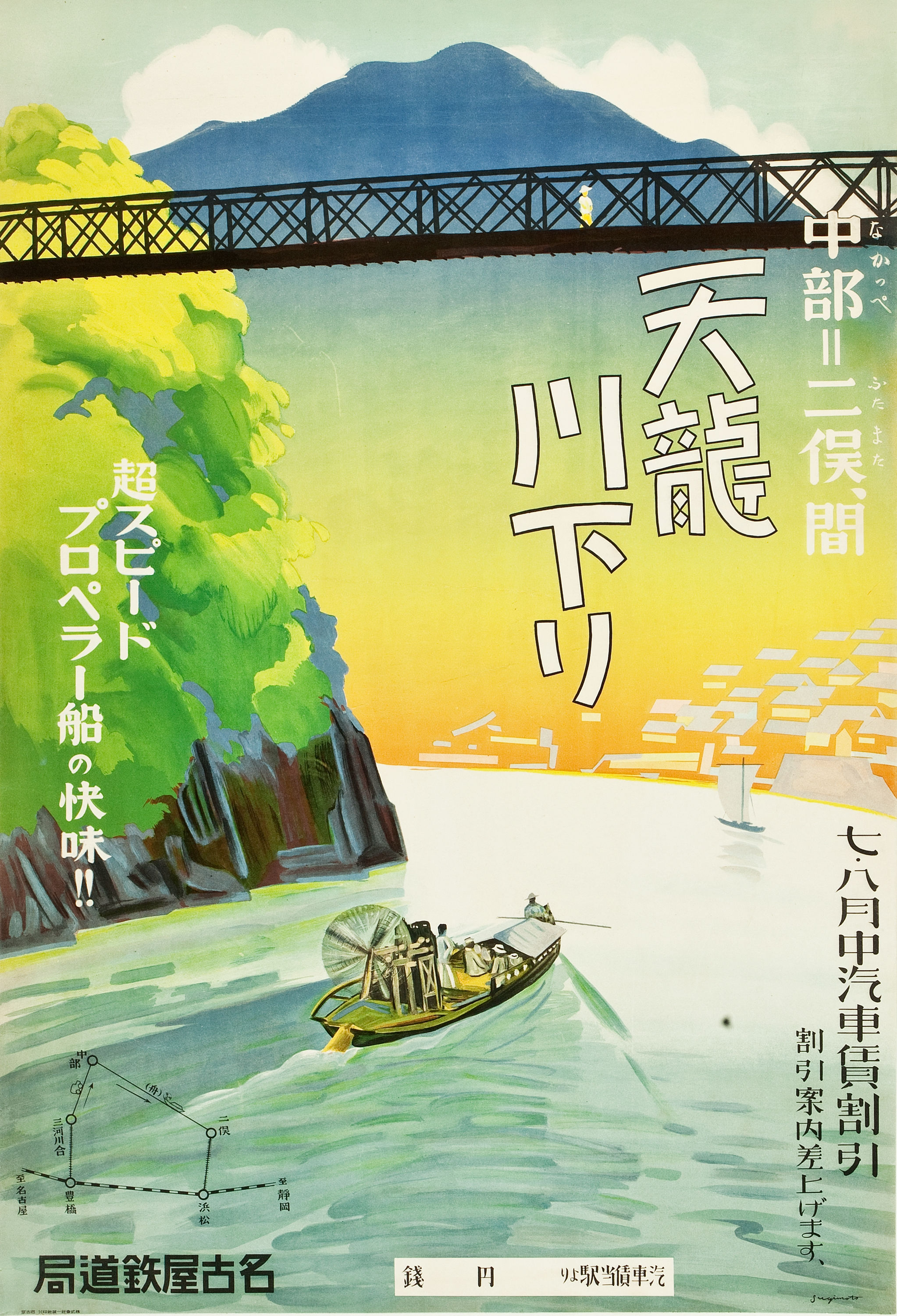 Tenryu River boat tour from Nakappe to Futamata (Nagoya Rail Agency, 1930s). Japanese Poster (24.5" X 36").